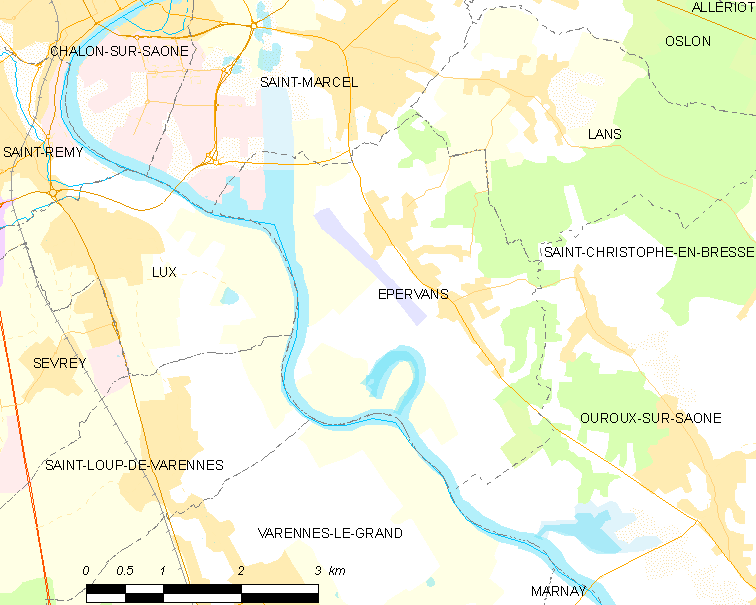 Map of French municipality